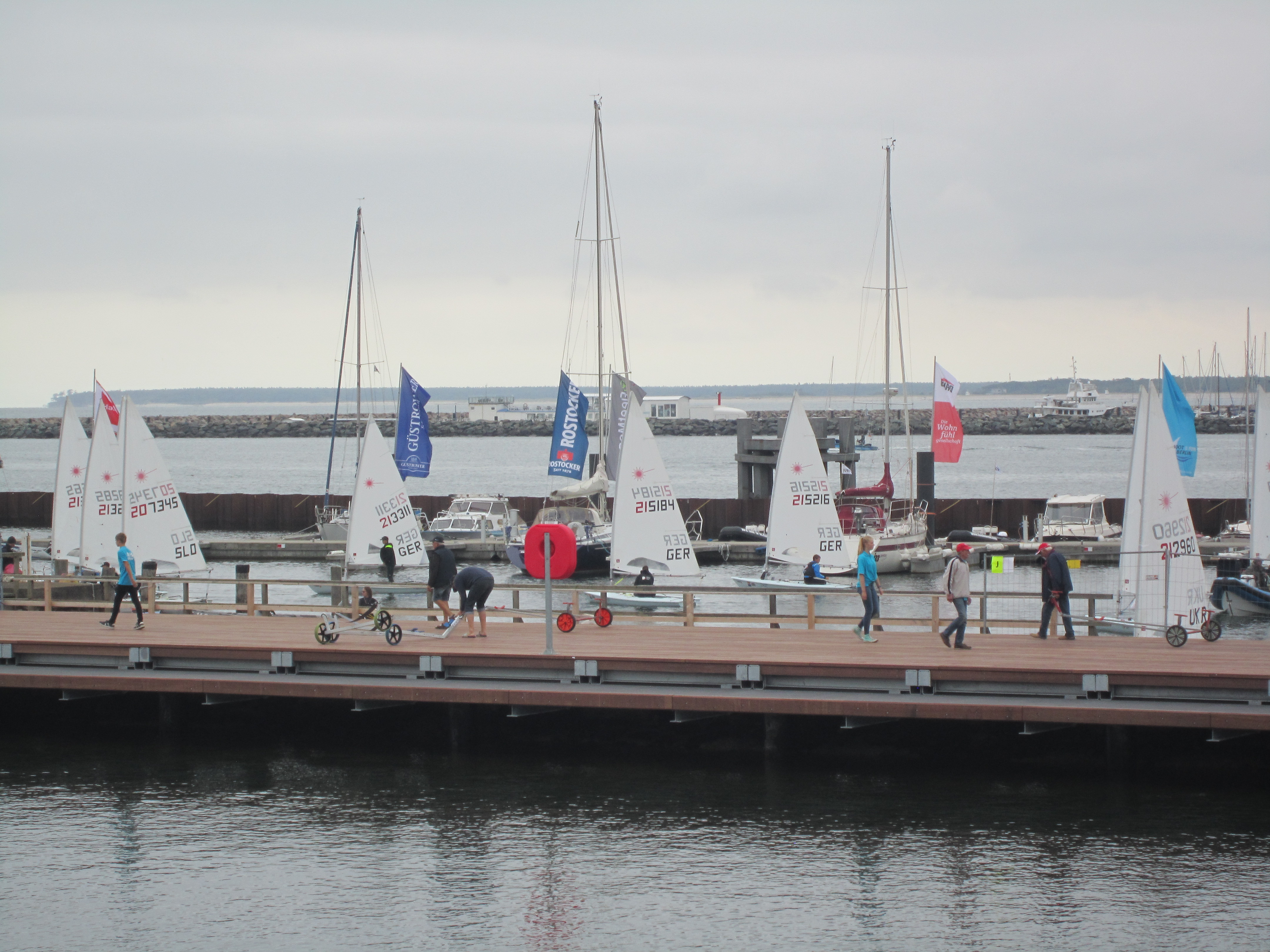 Yachtsmen of the "Laser Europe Cup" are prepared for taking part in the last regatta of the "Laser Europe Cup" during the "Warnemuende Week" 2019 on July 14.